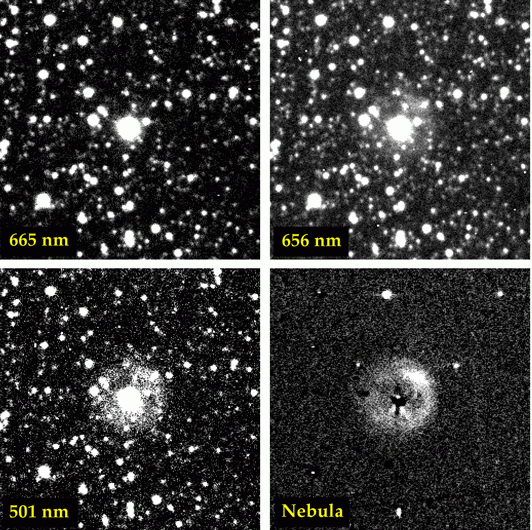 Sakurai's object images from ESO